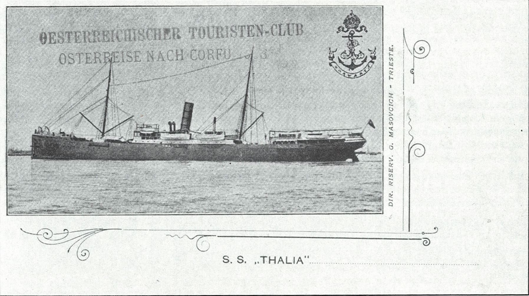 Postcard of S.S. Thalia, before 1907, unknown photographer